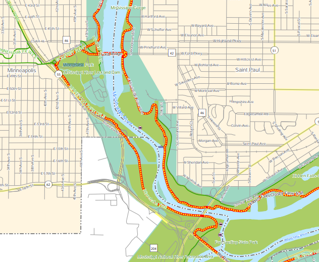 Minnehaha Trail is a 1.5 mile (2.4 km) paved, multi-use trail in Minneapolis, Minnesota, United States that connects Minnehaha Regional Park and Fort Snelling State Park.